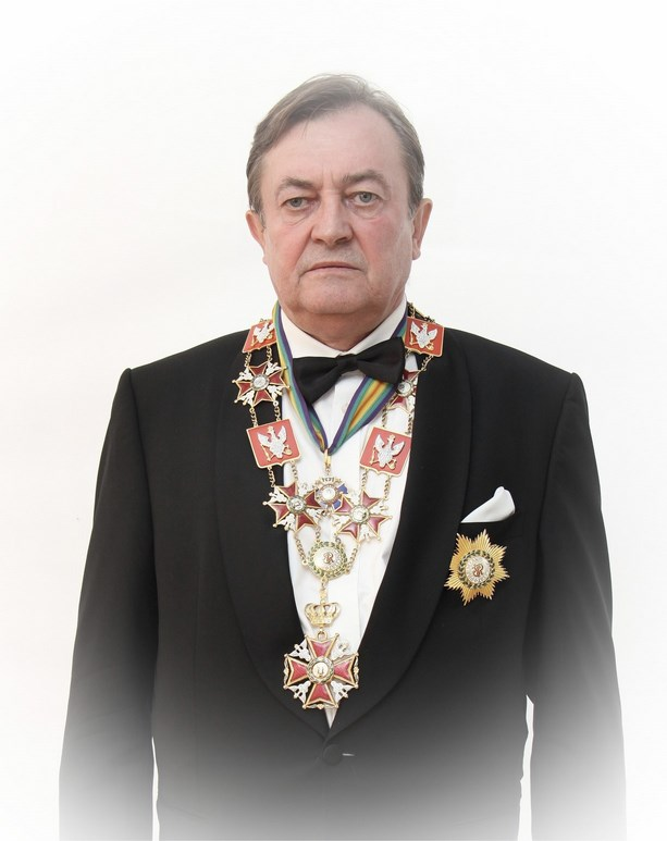 Jan Zbigniew Potocki in Kamien Slaski (2017)